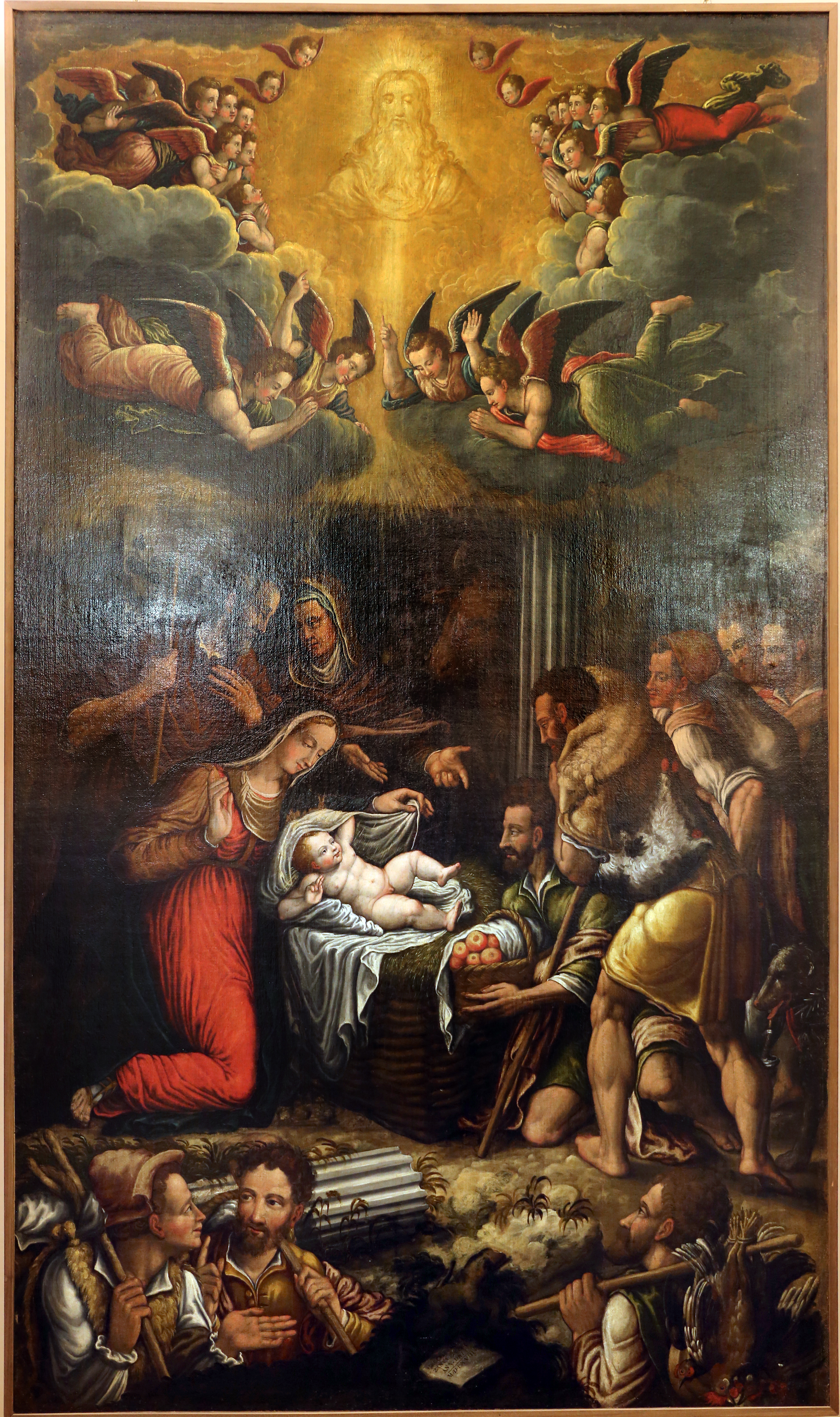 Pinacoteca Diocesana (Senigallia)